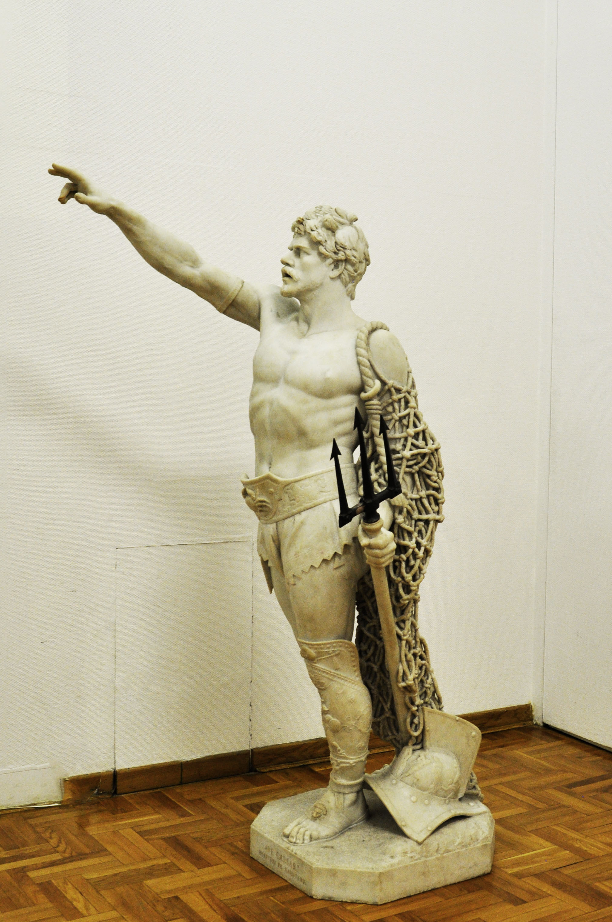 Gladiator - copy of Pius Weloński's sculpture in Warsaw's Zachęta Art Gallery